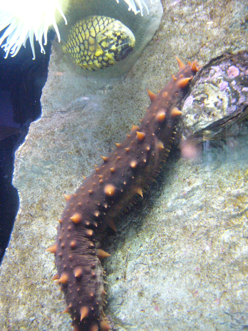 Holothuroidea (sea cucumber) in Sala Humboldt of Aquarium Finisterrae (House of the Fishes), in Corunna, Galicia, Spain.